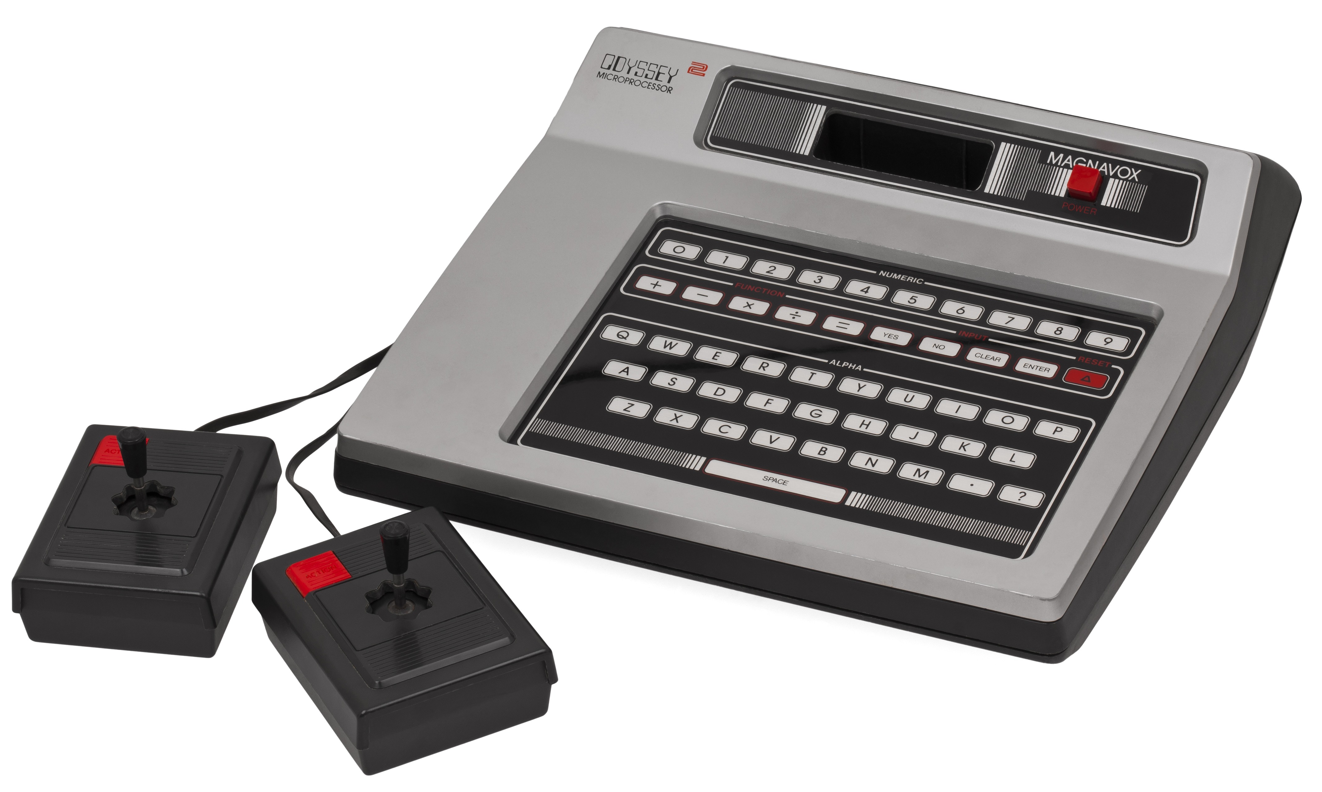 The Magnavox Odyssey², the 1978 follow up to original 1974 release of the Magnavox Odyssey. The console features two controllers that are wired directly into the system.